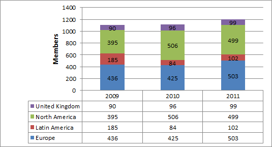 SPR membership by chapters